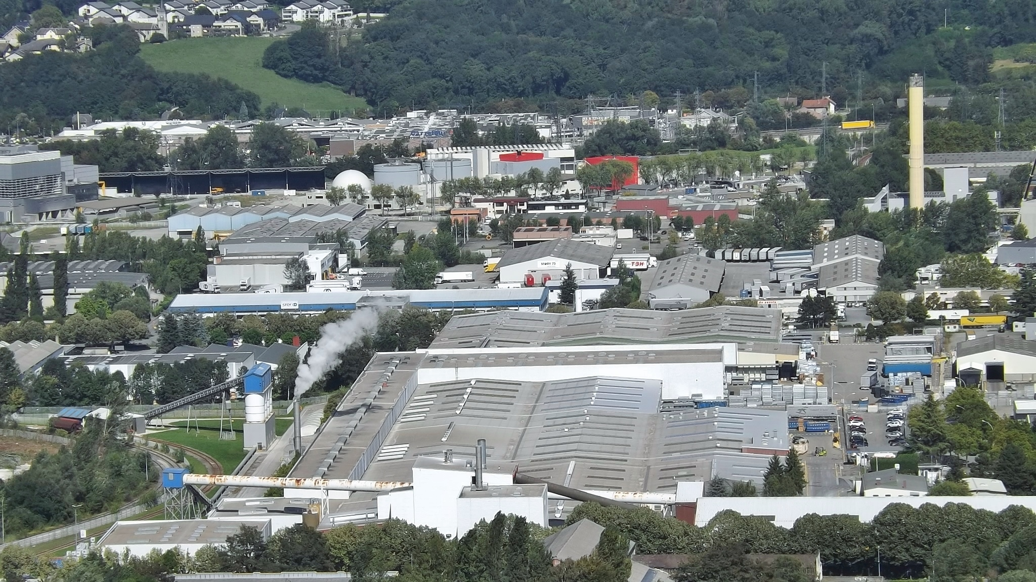 Panoramic sight of Bissy industrial area, with mainly visible at the foreground Placoplatre production site, on the French commune of Chambéry, in Savoie, France.